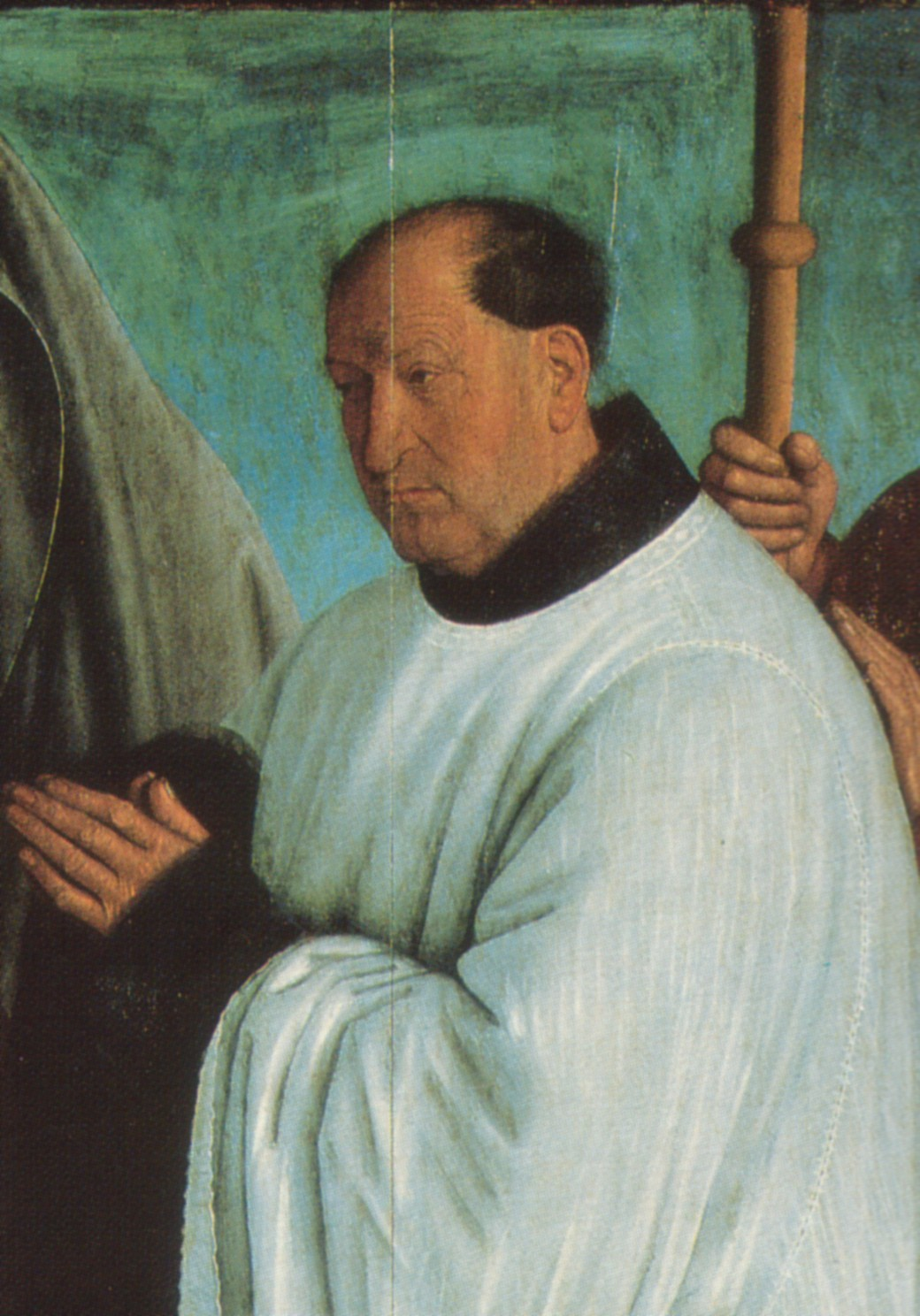 Detail of the Pieta de Nouans by Jean Fouquet